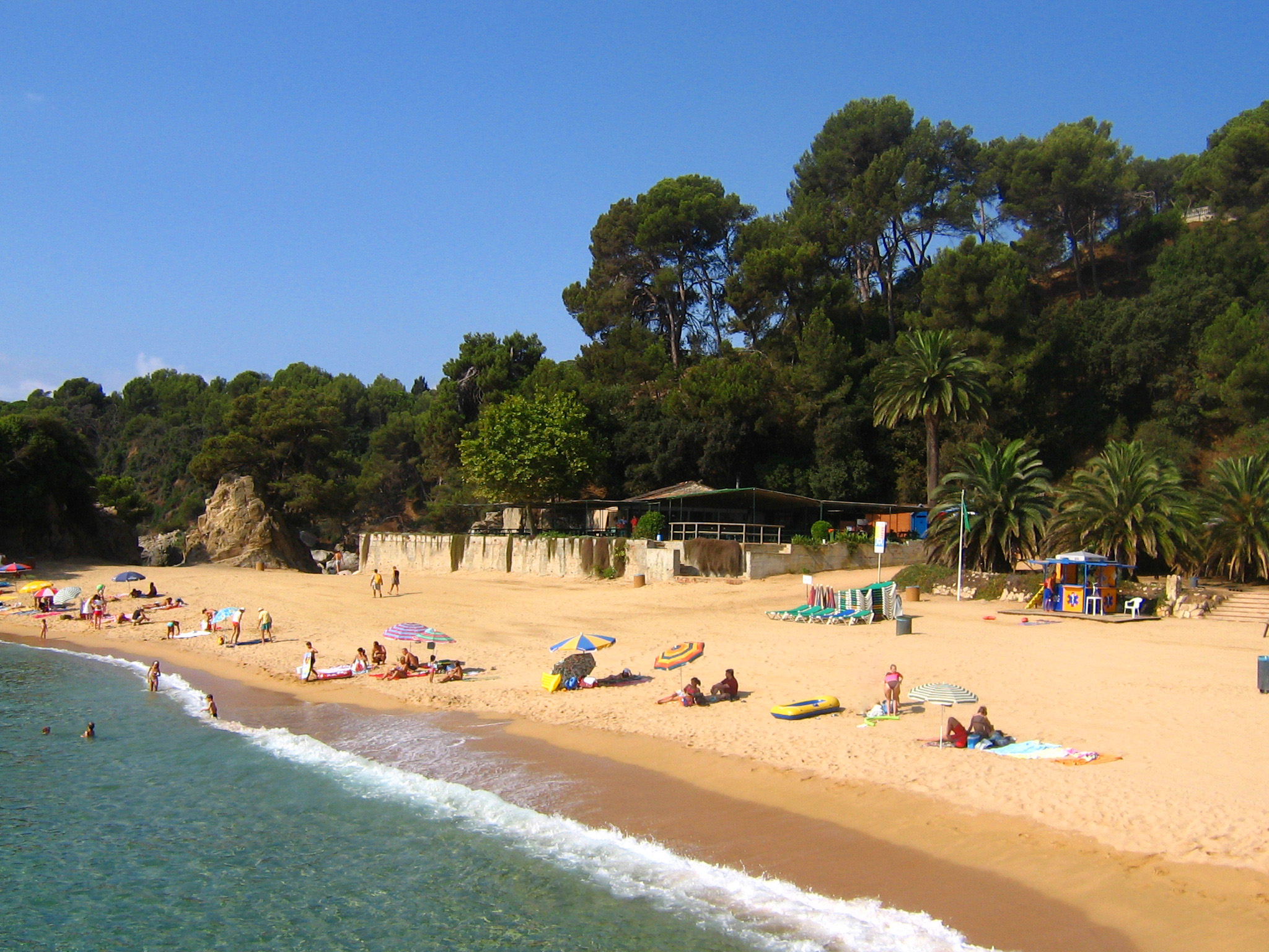 Little beach between "Lloret de mar" and "Blanes", in Girona (Spain)